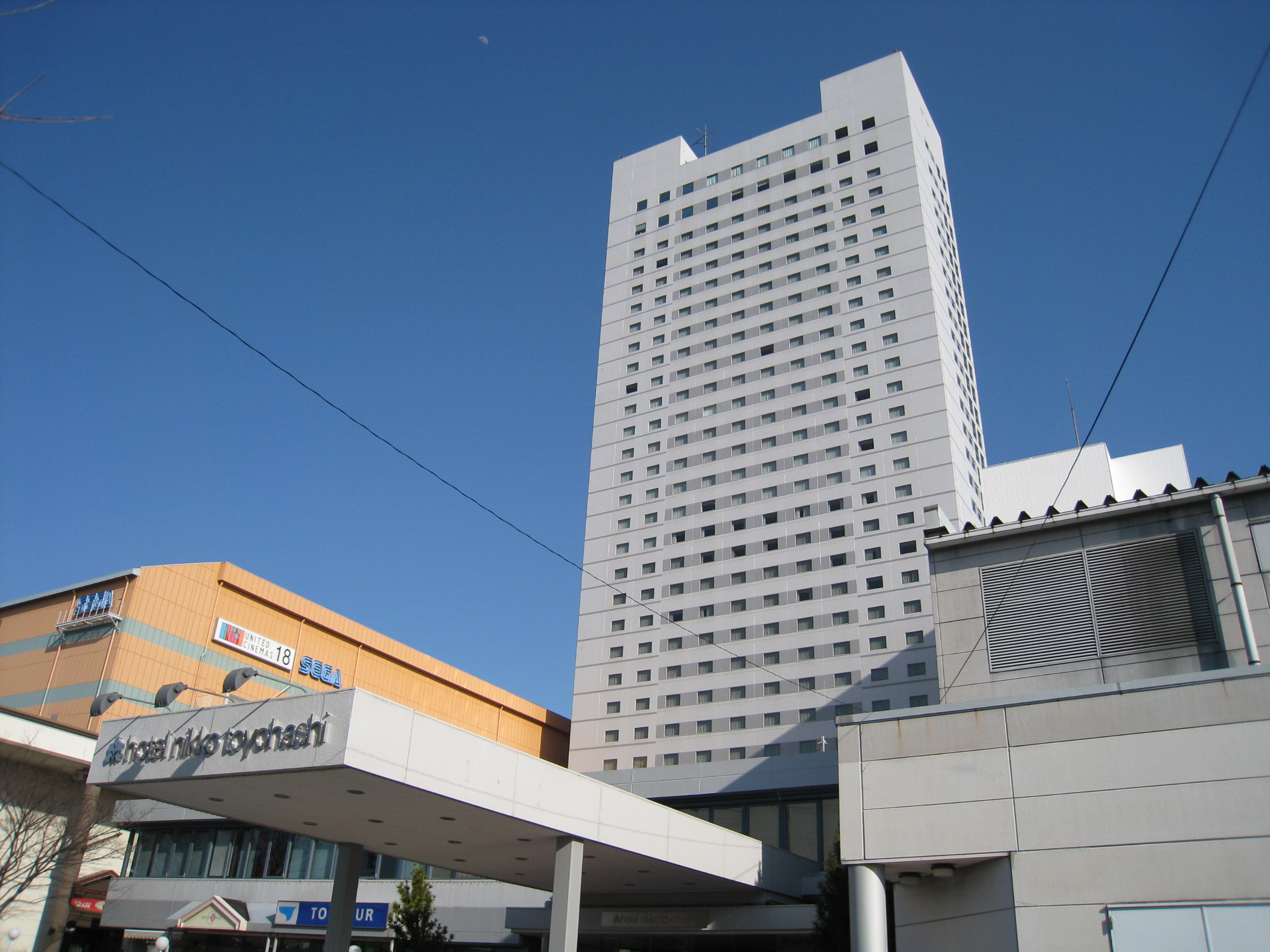 Hotel Nikko Toyohashi (ホテル日航豊橋), located at Fujisawacho, Toyohashi, Aichi, Japan